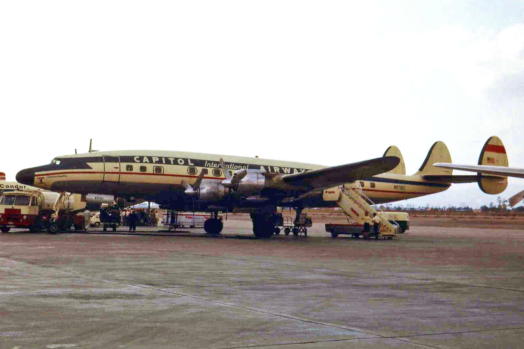 A picture of an airplane